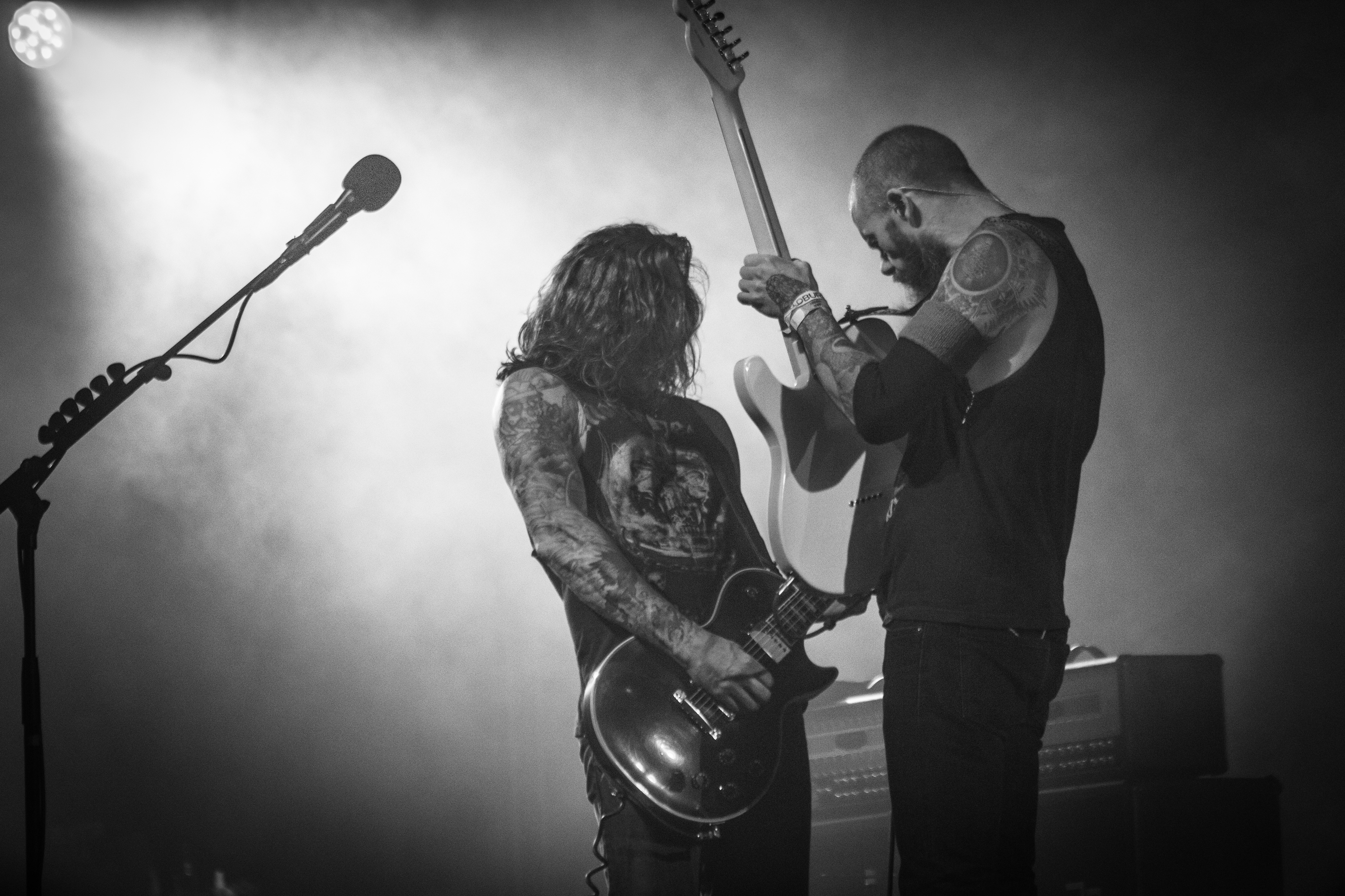 Baroness live at Roadburn Festival, Tilburg, April 2017